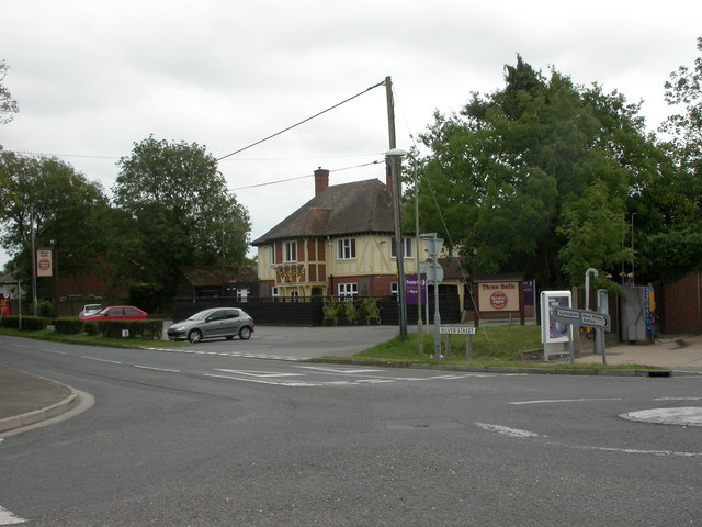 Hordle, Three Bells Mock-Tudor pub, with motel behind, on Silver Street. Internally, L-shaped bar, with drinking/eating areas on two sides. Cask ale on offer at my visit: Ringwood Best. For some customer reviews